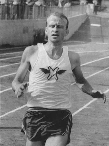 1966 Press Photo Jim Grelle at Mt. San Antonio Relays